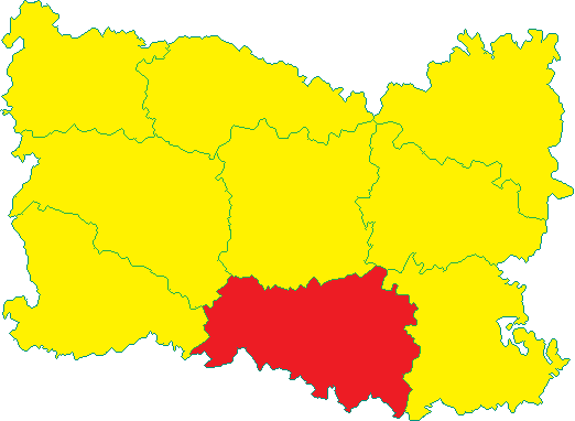 Maps of district of Senlis (1790 - 1795)